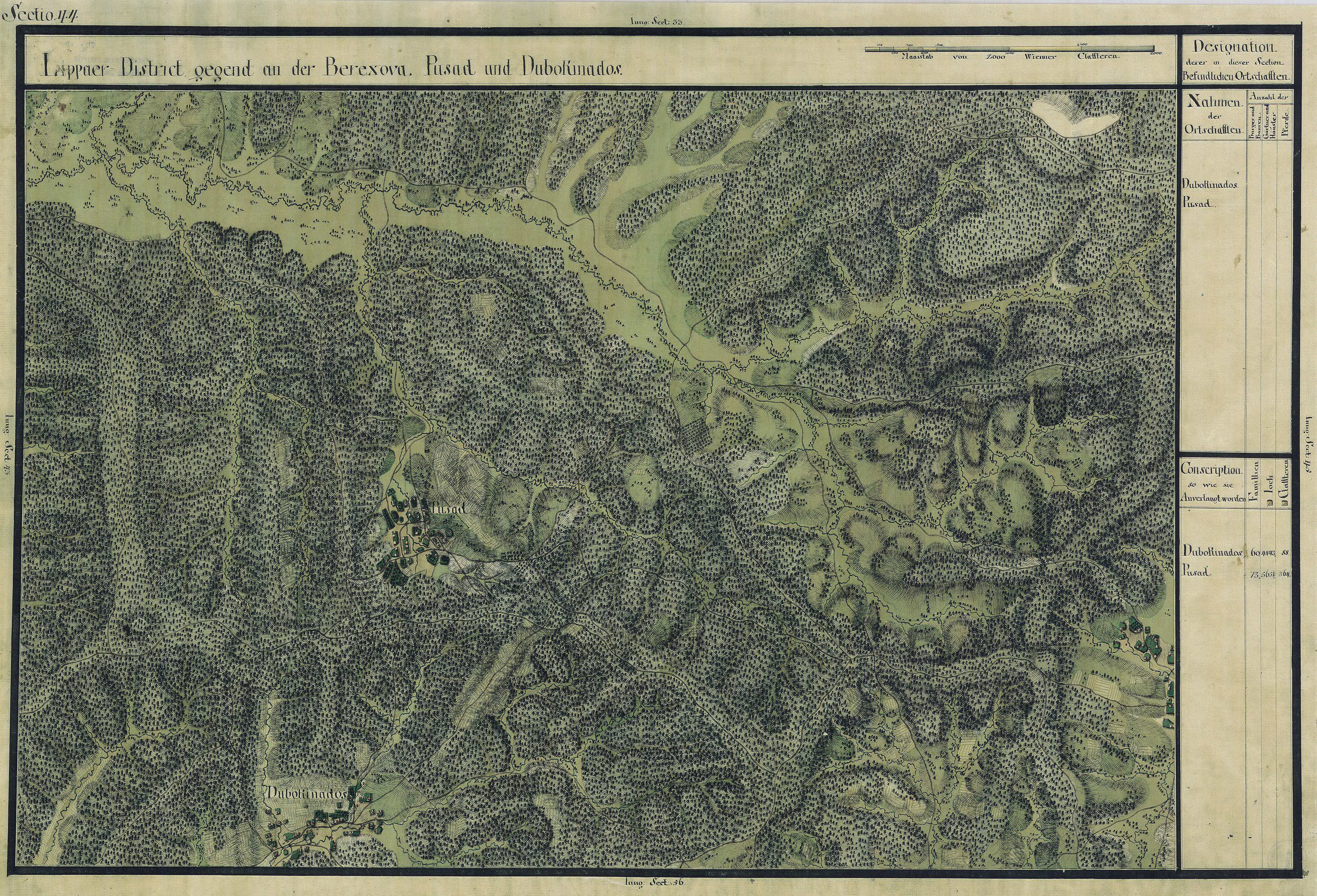 The Banat region in the cadastral maps: Josephinische Landesaufnahme, 1769-72. Josephinische Landaufnahme pg044